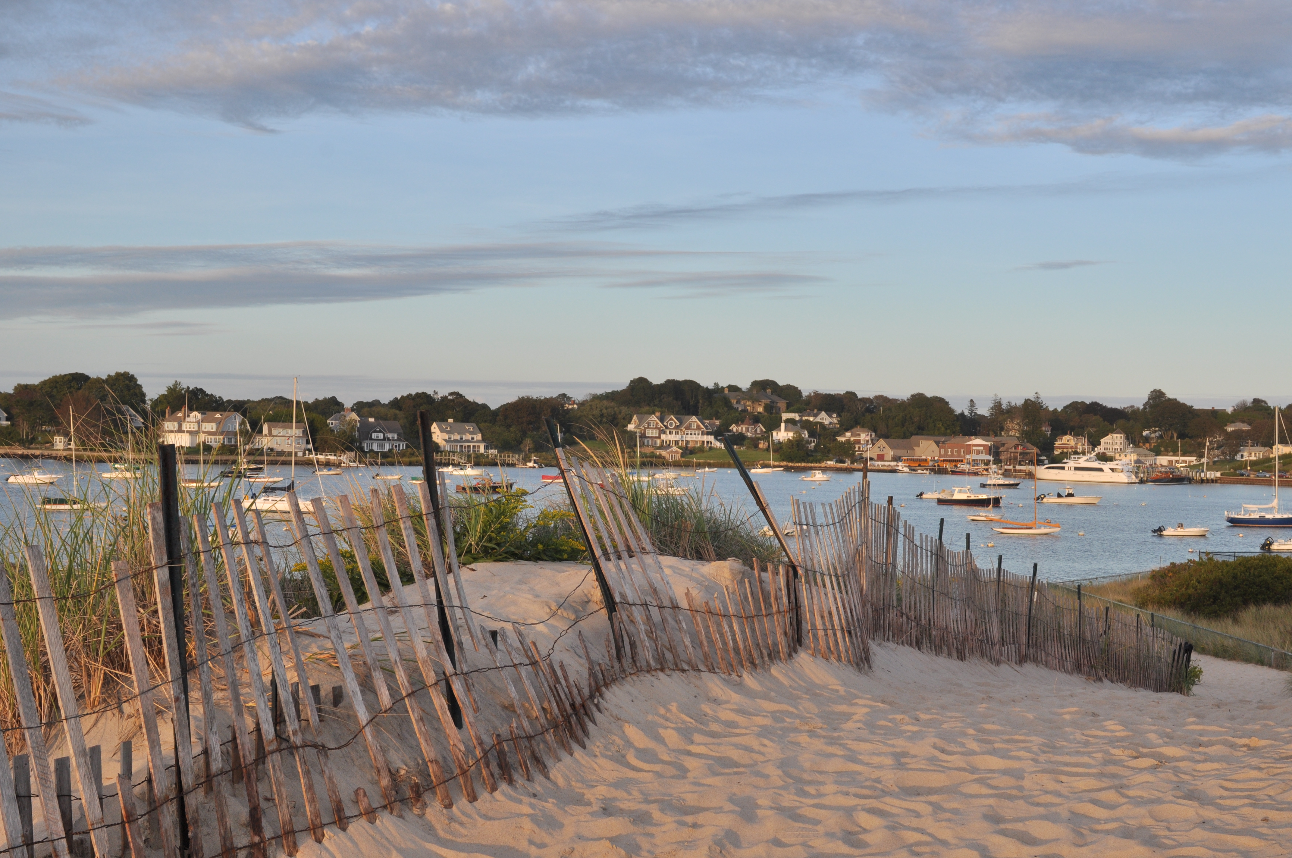 The Watch Hill Cove and Watch Hill, Rhode Island, USA, as viewed from the eastern end of Napatree Point.